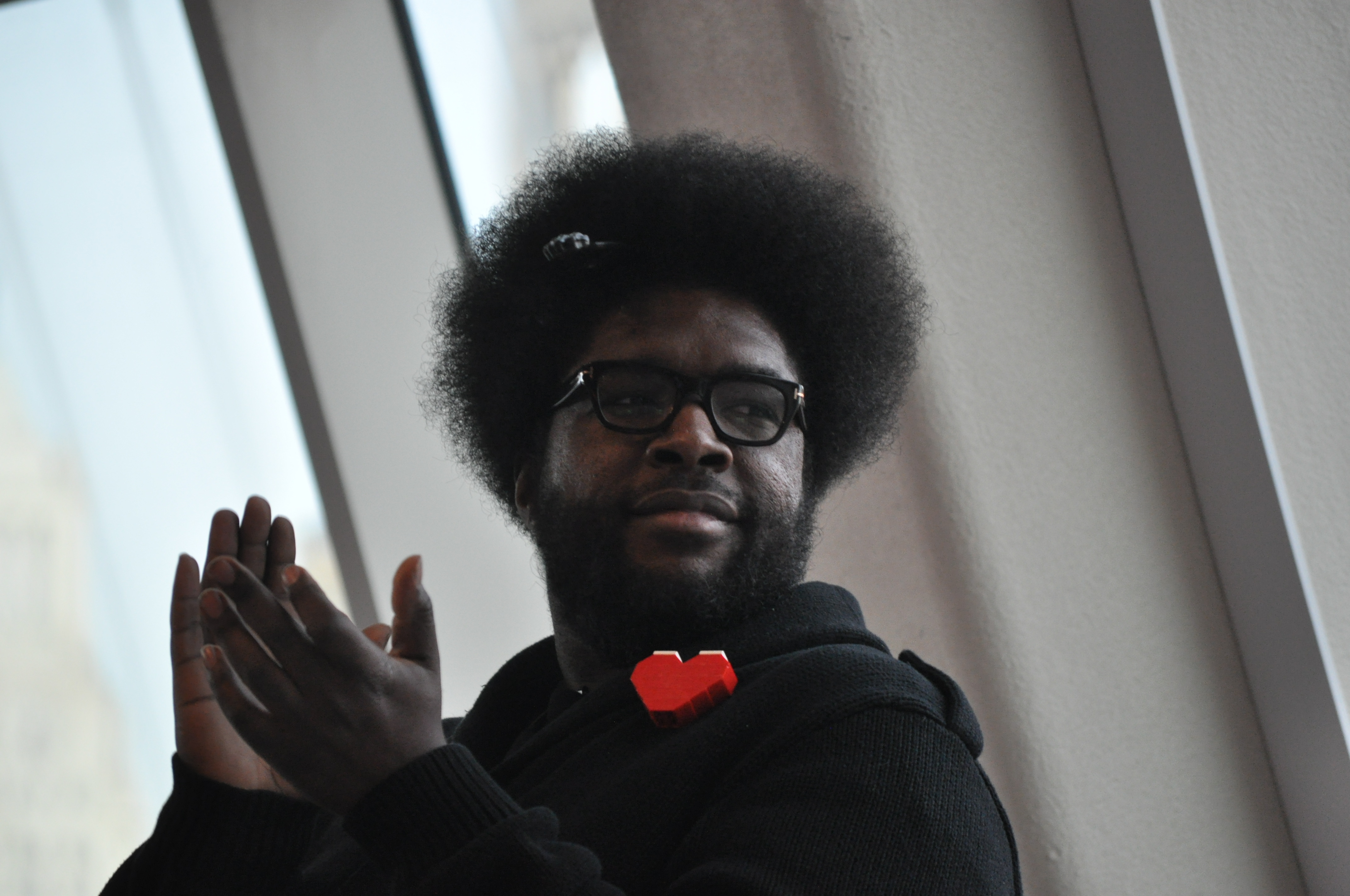 Questlove (a.k.a. ?uestlove) appearing at the 2012 Pop Conference, at NYU.